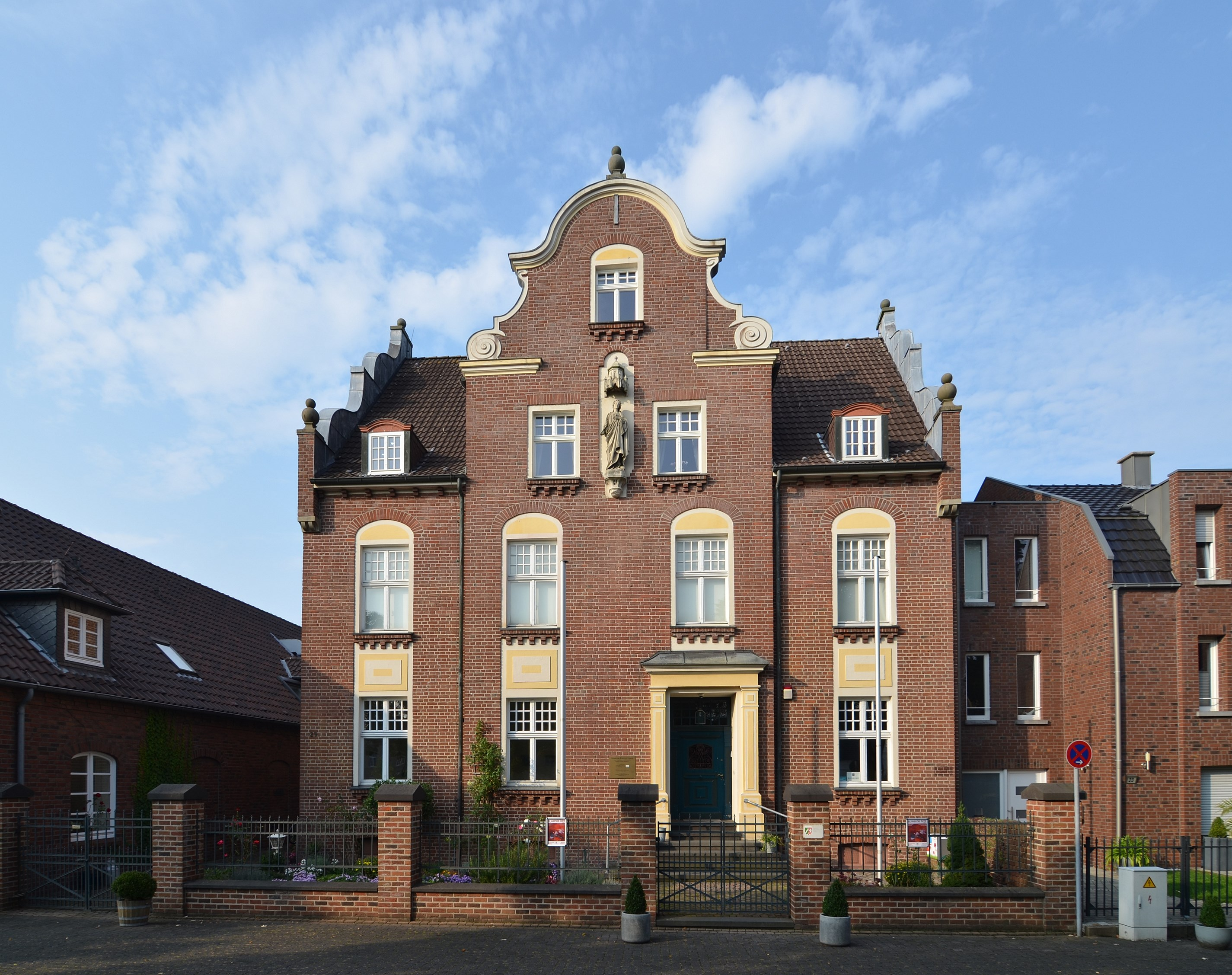 Kamp-Lintfort (North Rhine-Westphalia, Germany) – former Agatha Convent, now museum of Kamp Abbey This image shows a heritage building in Germany, located in the North Rhine-Westphalian city Kamp-Lintfort (no. 3). This photograph was taken with a Nikon D7000